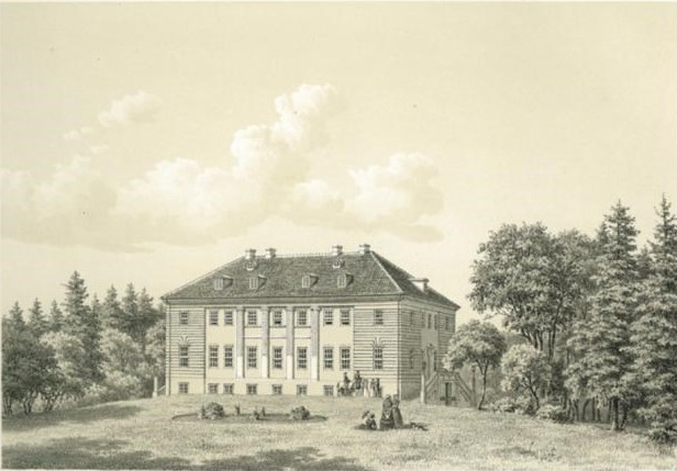 Bækkeskov near Præstø in Denmark